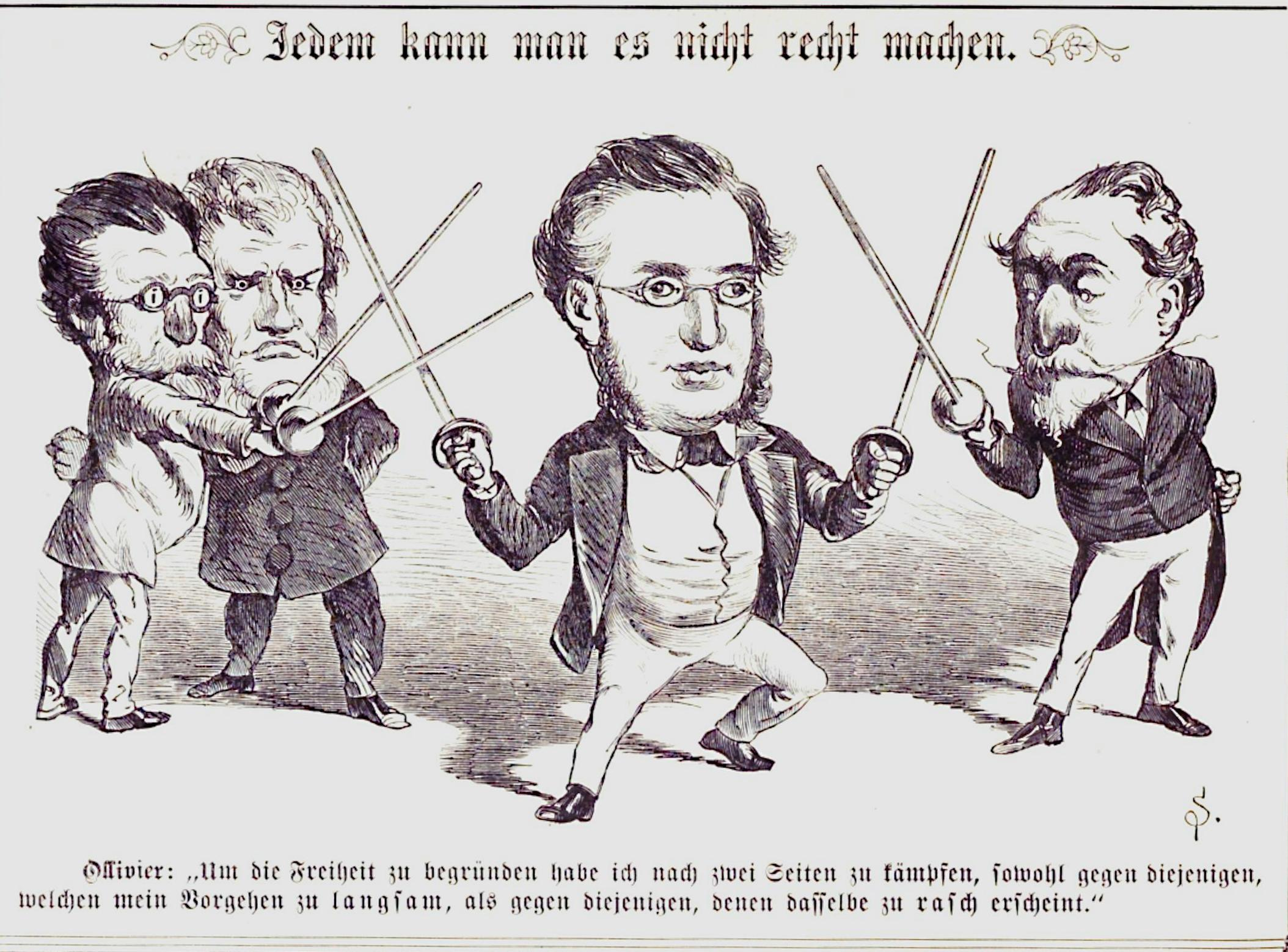 Karikatur, Kladderadatsch. Ollivier